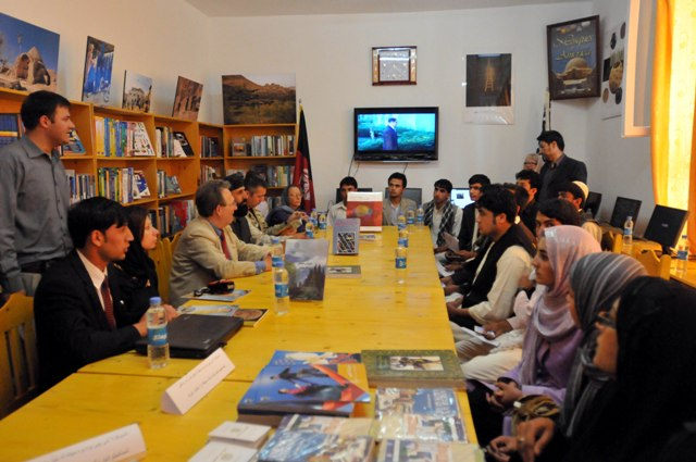 GHAZNI PROVINCE, Afghanistan – U.S. Deputy Ambassador to Afghanistan Anthony Wayne and Ghazni Provincial Gov. Musa Khan Ahmadzai talk to students who use Afghanistan's newest Lincoln Learning Center in the Directorate of Information and Culture in Ghazni City. The center opened two months ago, but was officially inaugurated May 26. The center, much like U.S. public libraries, provides free access to information about the U.S. via multi-media, book collections, the Internet and programming for the general public. (Photo by U.S. Air Force Chief Master Sgt. Julie Brummund, Ghazni Provincial Reconstruction Team Public Affairs)